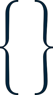 The null set is the set with no elements, denoted by ∅={}.